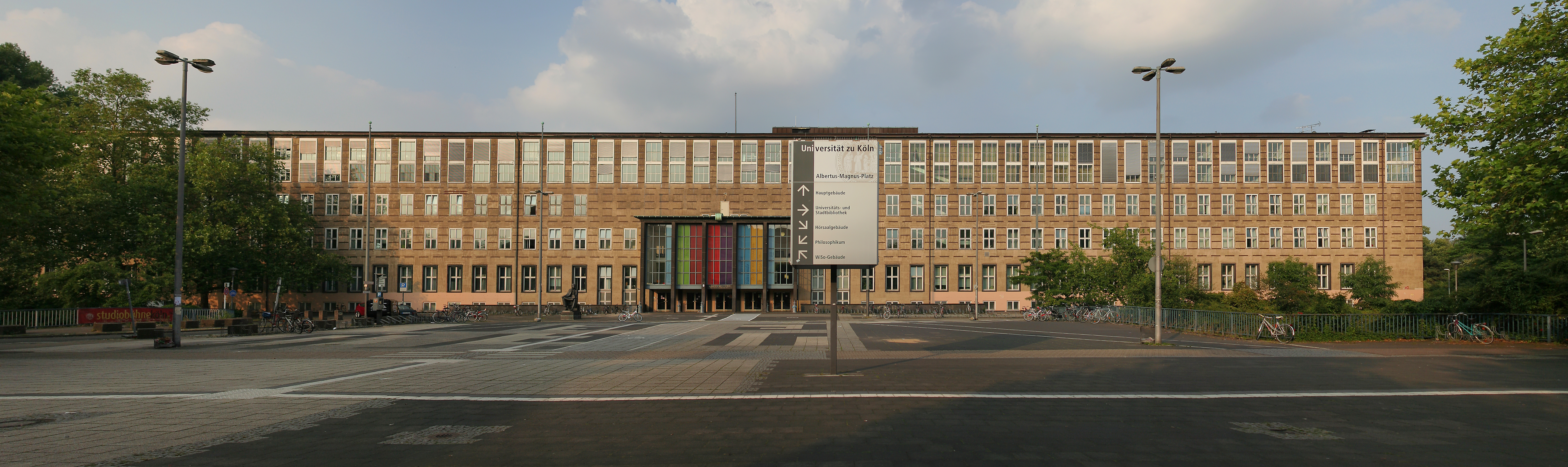 Main campus building of University of Cologne in Cologne, Germany. This image is stitched from five single shots using PTGui.This is a photograph of an architectural monument. NOTE: This image is a panorama consisting of multiple frames that were merged or stitched in software. As a result, this image necessarily underwent some form of digital manipulation. These manipulations may include blending, blurring, cloning, and colour and perspective adjustments. As a result of these adjustments, the image content may be slightly different from reality at the points where multiple images were combined. This manipulation is often required due to lens, perspective, and parallax distortions.